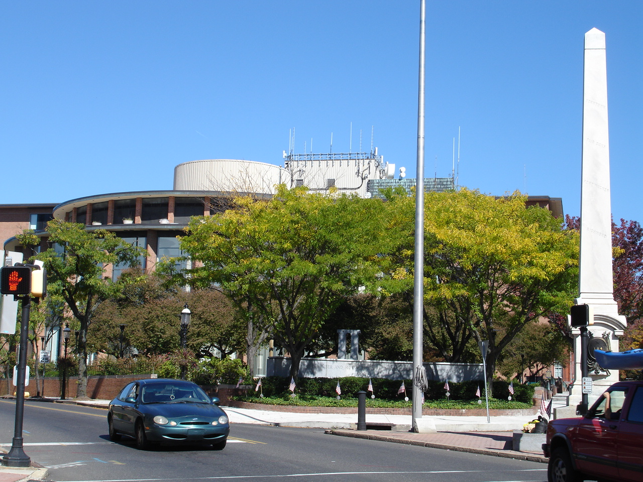 I took this photo 10/8/06